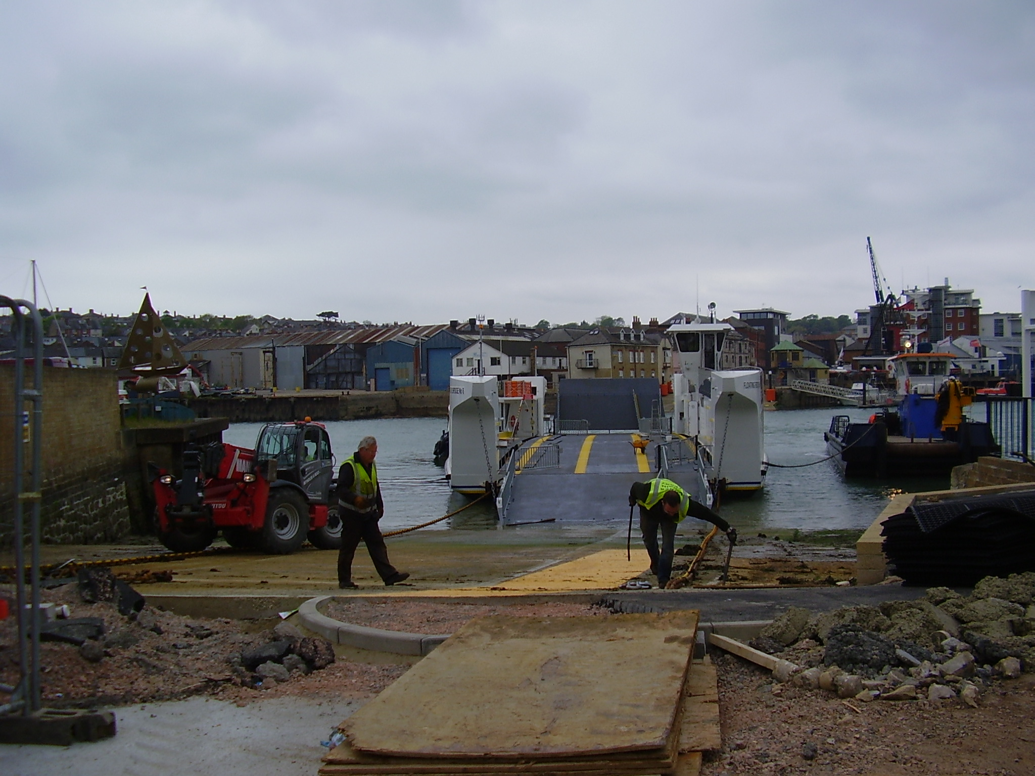 Installing the new chain ferry, 3 May 2017, Cowes, Isle of Wight, UK.